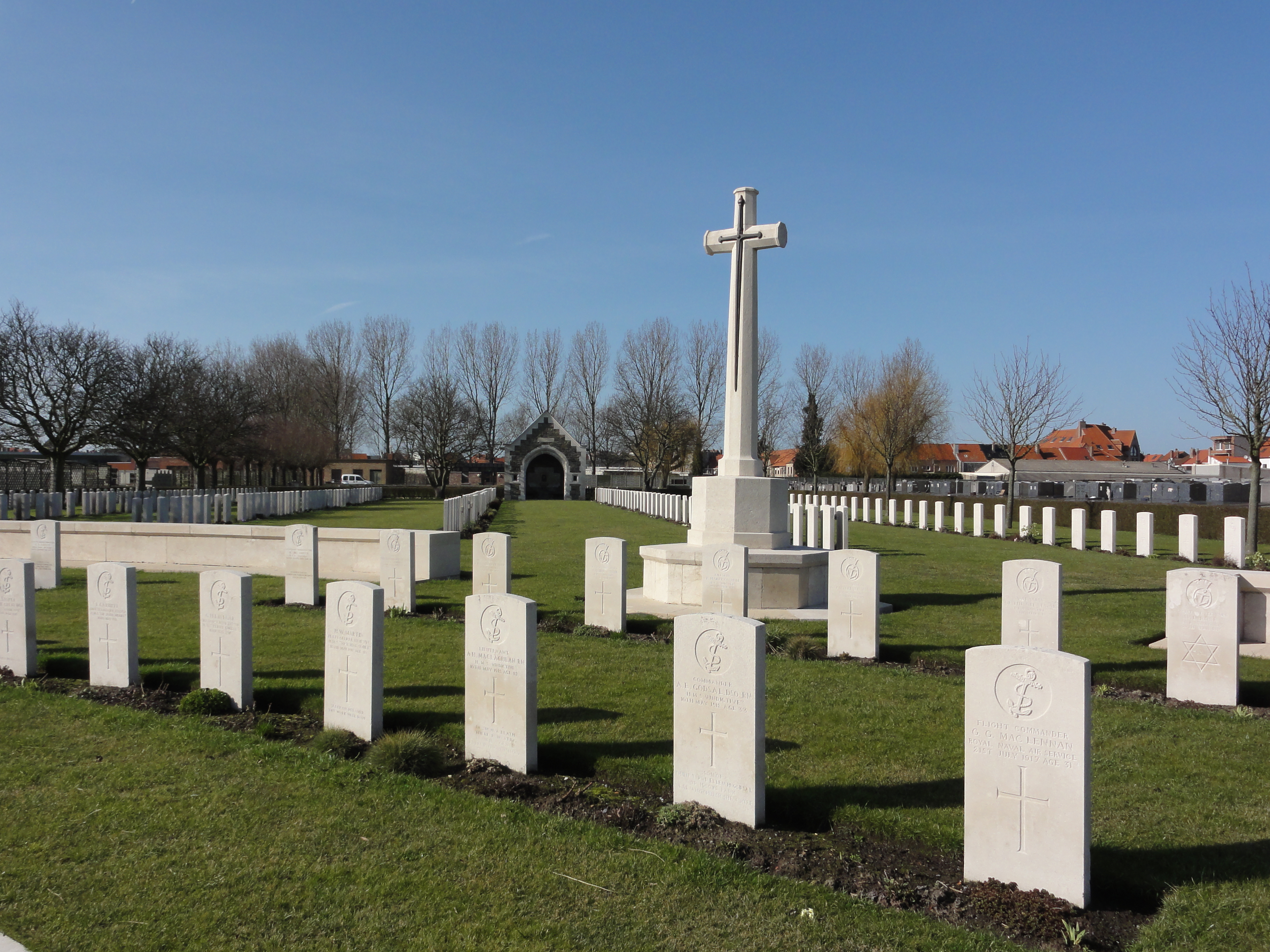 Oostende New Communal Cemetery. CWGC cemetery on the "Begraafplaats Stuiverstraat" cemetery in Oostende. Oostende, West Flanders, Belgium